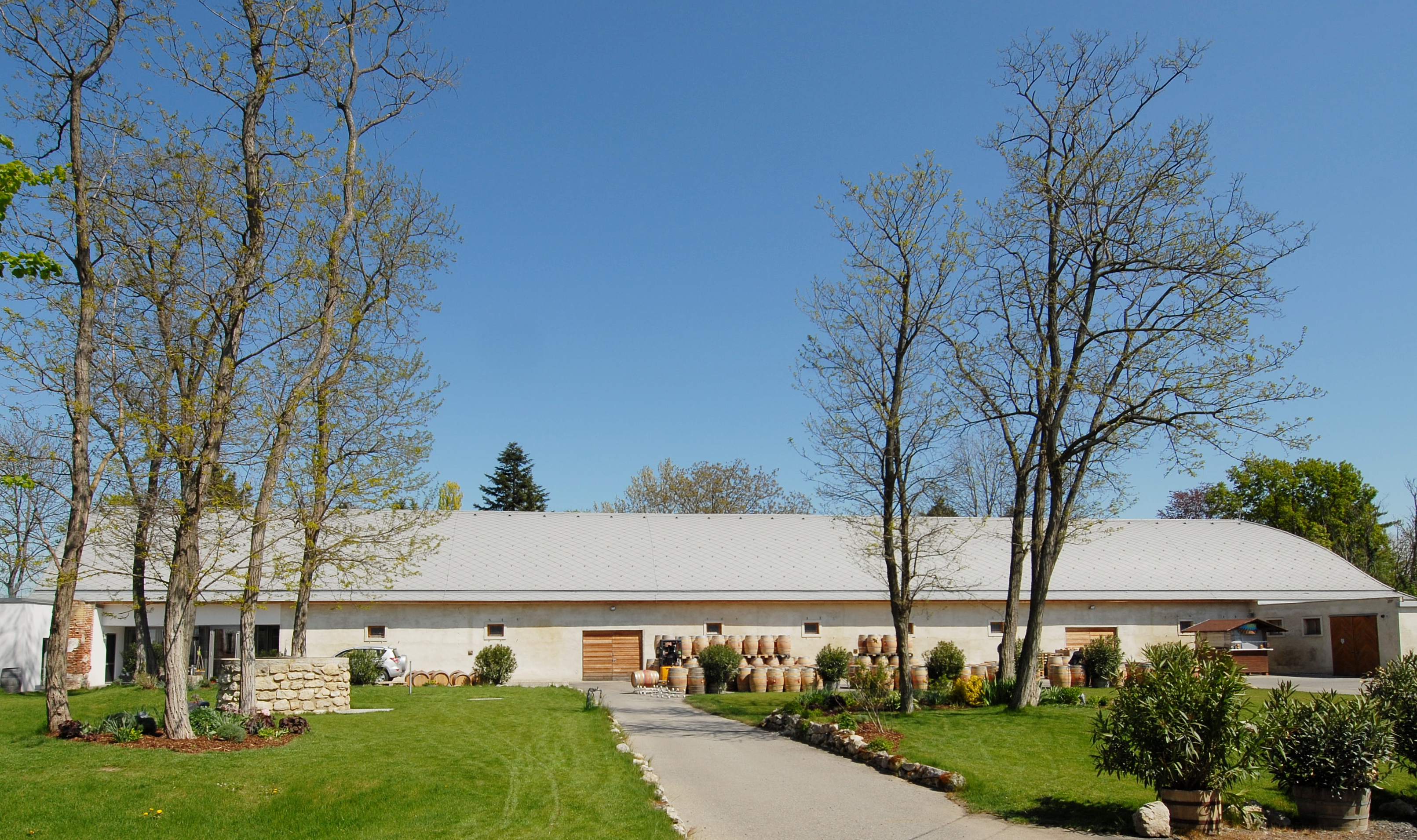 Hans Igler Winery, Deutschkreutz, 2014